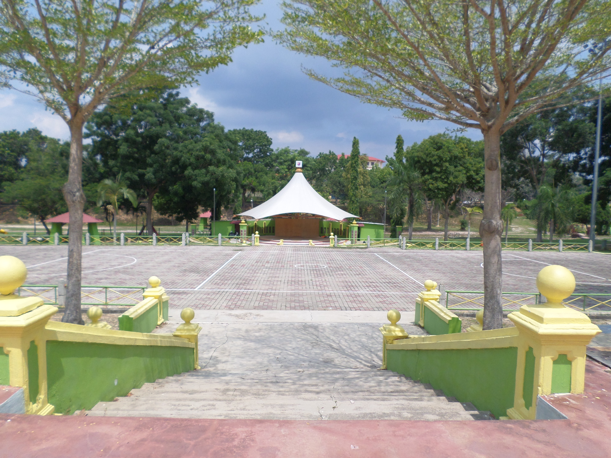 Jasin Square, Jasin, Melaka, MalaysiaBahasa Melayu: Dataran Jasin, Jasin, Melaka, Malaysia